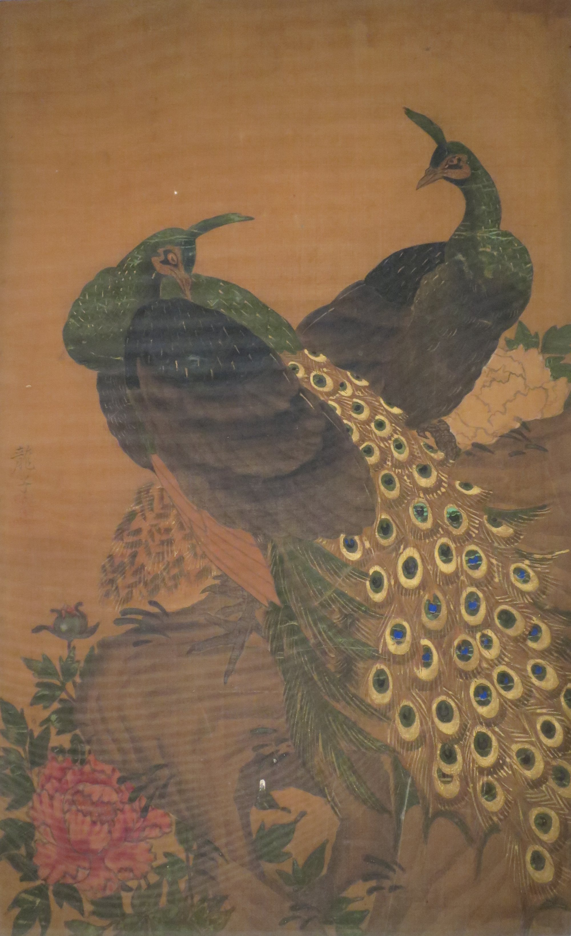 Two Peacocks attributed to Kawabata Ryushi, painting on silk, Dayton Art Institute